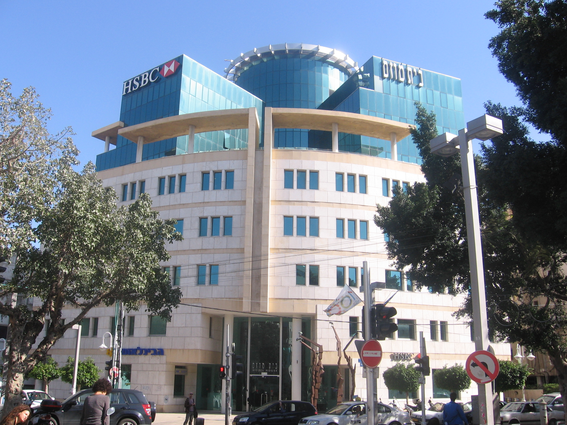 Moses house in Tel Aviv.